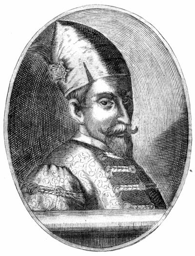 Feodor I of Russia. Fyodor I Ivanovich (Russian: Фёдор I Иоаннович) (May 31, 1557 - January 6/7, 1598) was the last Rurikid Tsar of Russia (1584 - 1598), son of Ivan the Terrible and Anastasia Romanovna. He is known as Feodor the Bellringer in consequence of his inclination to travel the land and ring the bells at churches.